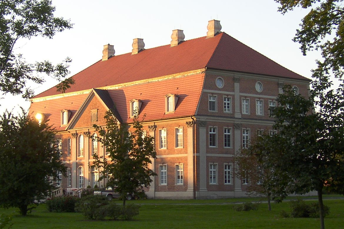 Prebberede palace in Mecklenburg-Western Pomerania, Germany